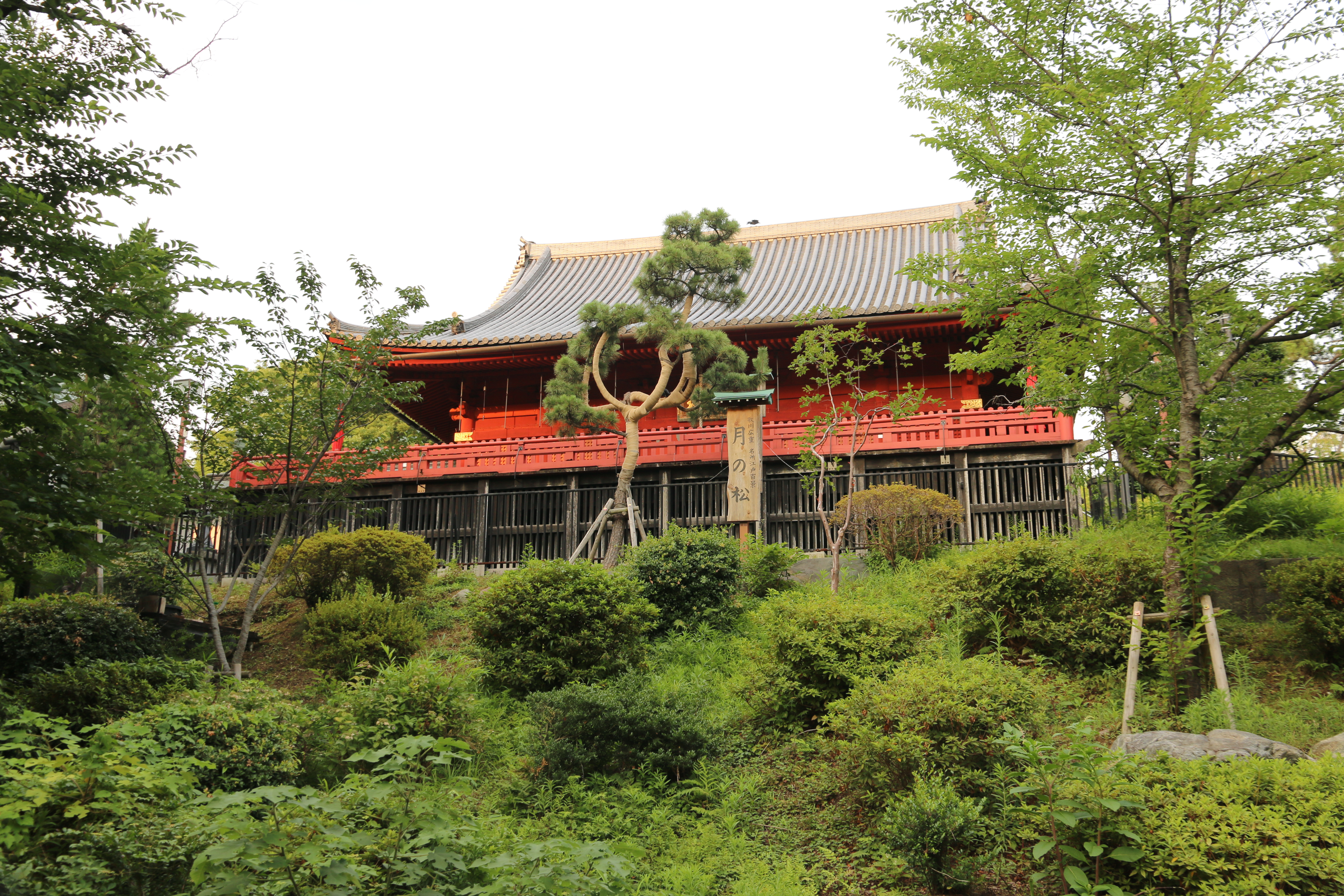 Kiyomizu Kannon-dō hall of Kan'ei-ji temple in Ueno Park